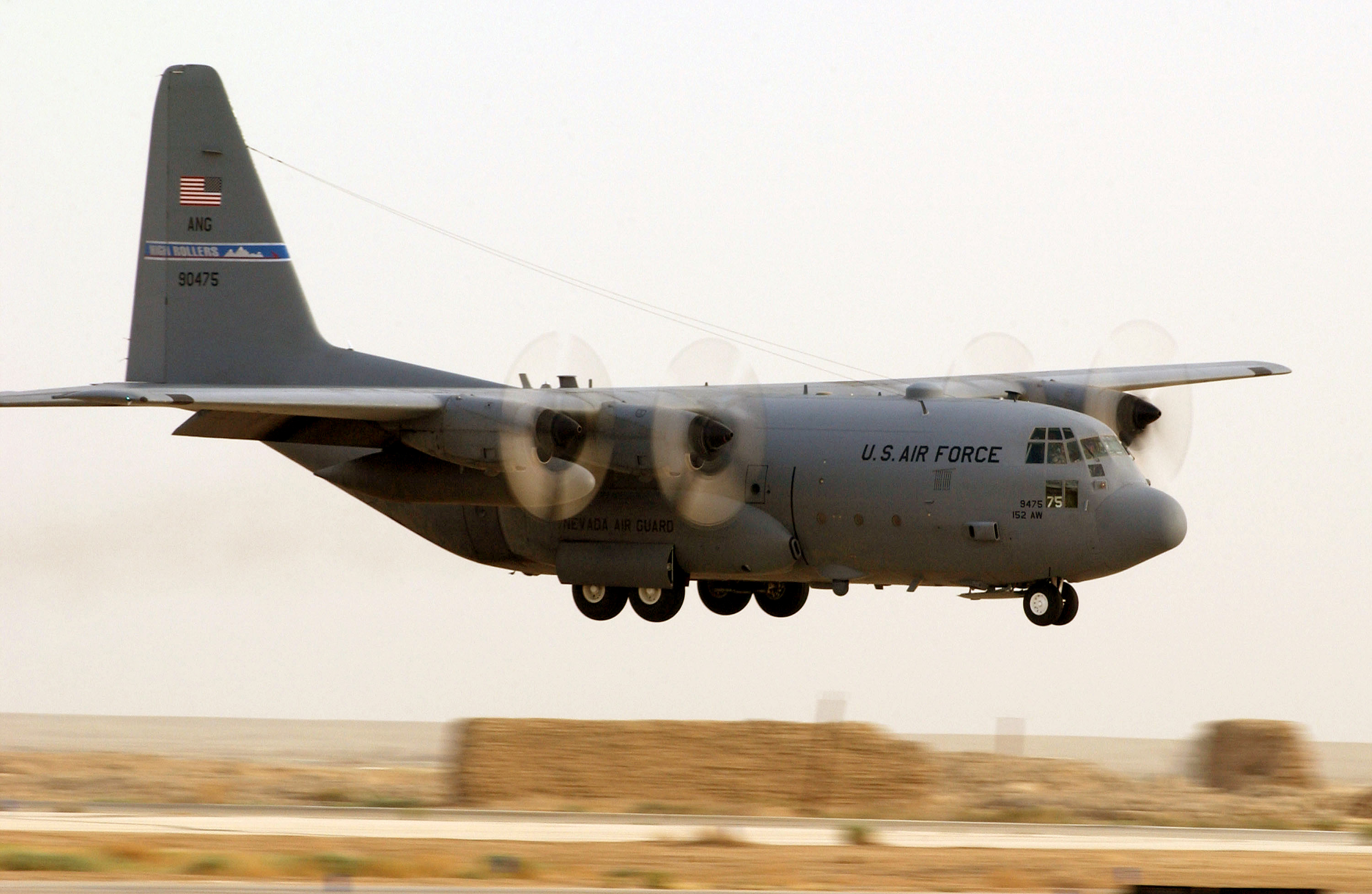 A U.S. Air Force Lockheed C-130H-LM Hercules cargo aircraft (s/n 79-0475) from the 192nd Airlift Squadron, 152nd Airlift Wing, Nevada Air National Guard, lands at Tallil Air Base, Iraq, on 22 April 2005.